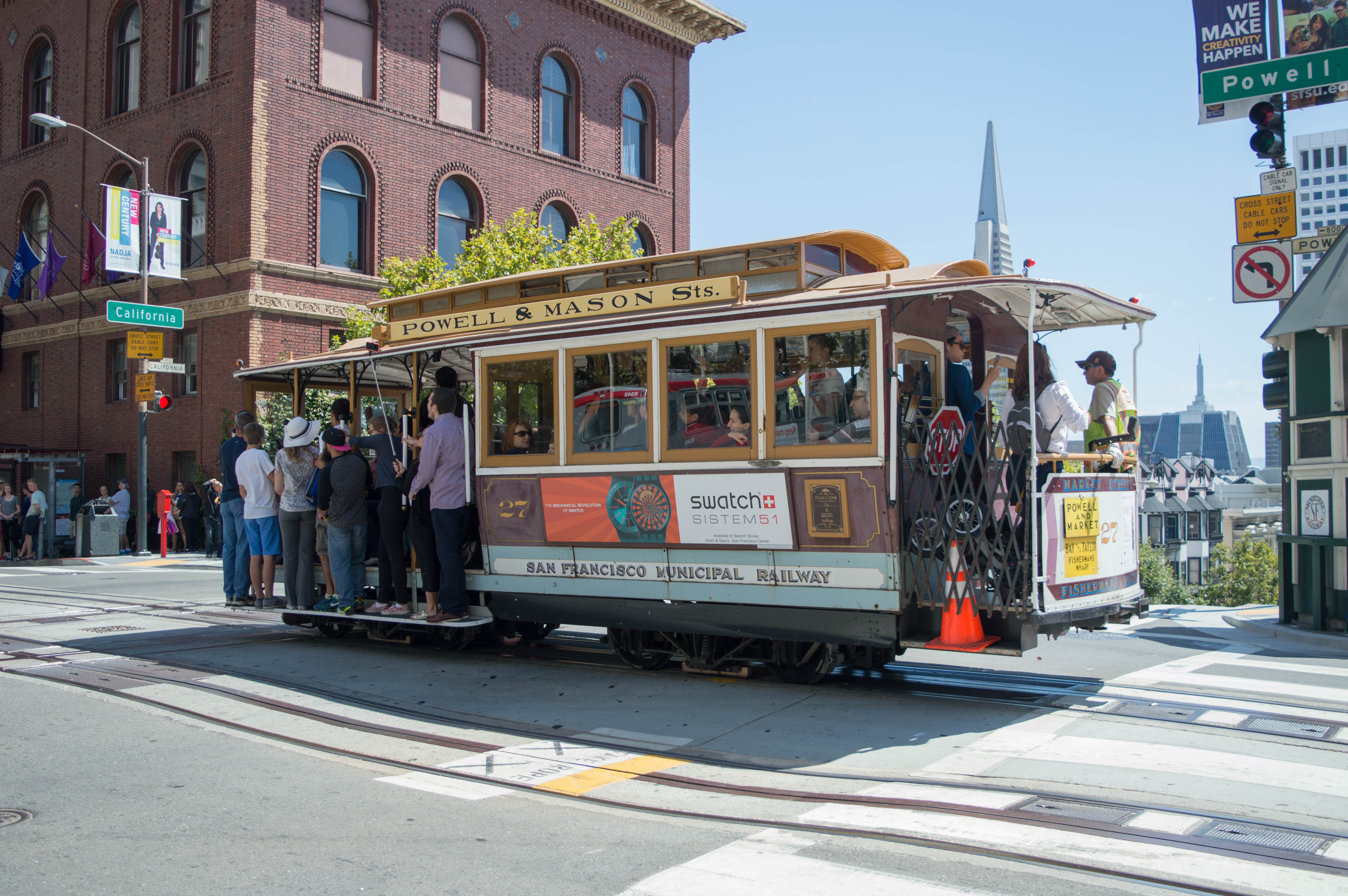 Cable car no. 27 of the Powell & Mason cable car in San Francisco.